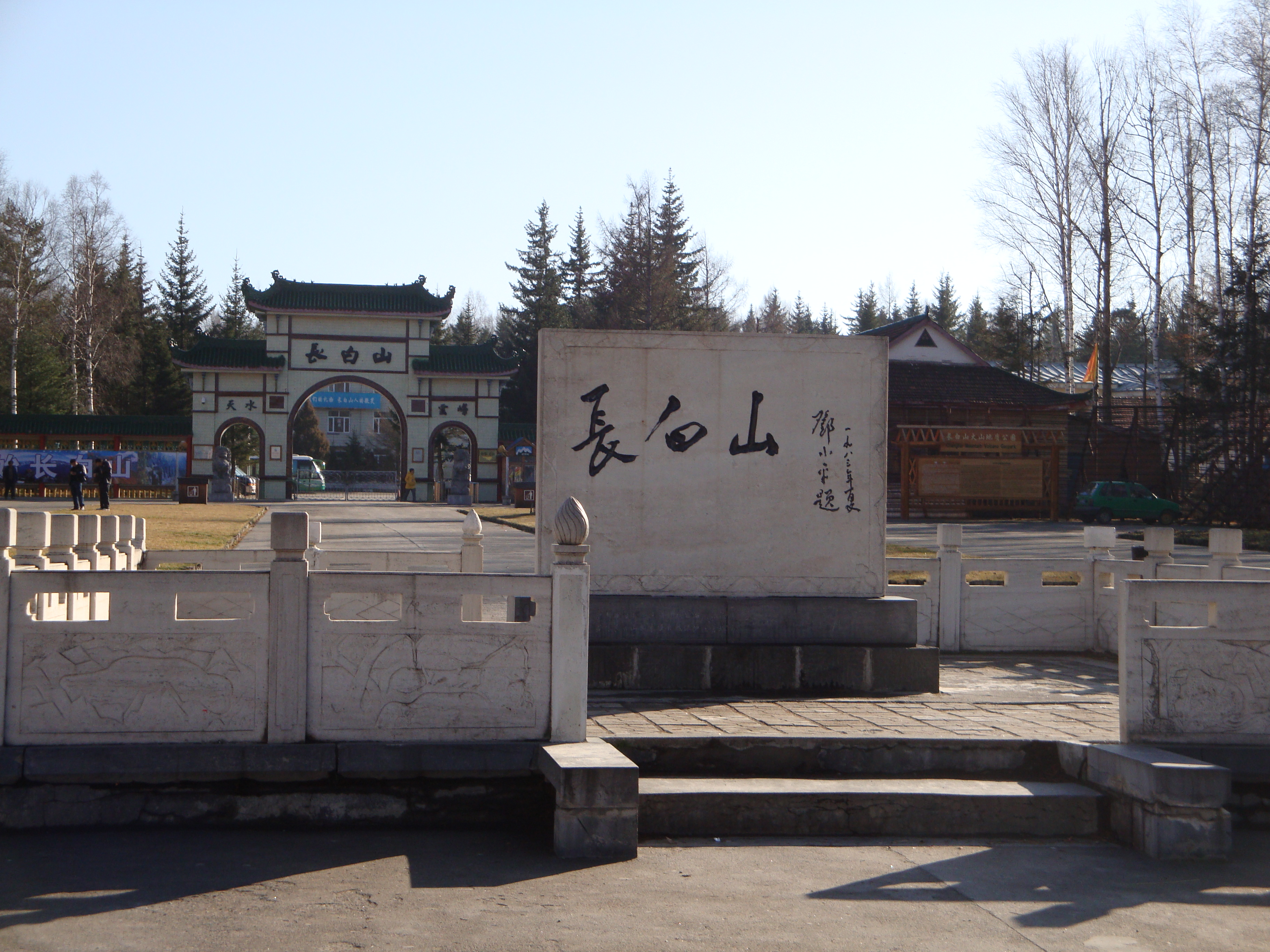 Changbai Mountain entrance